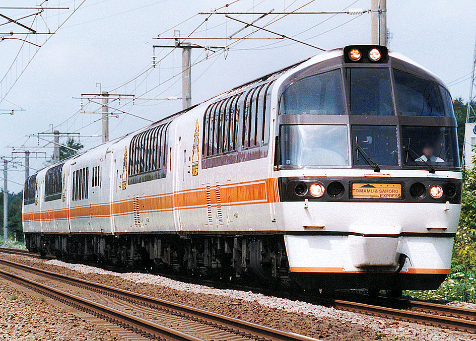 JR Hokkaido KiHa 80 series "Tomamu & Sahoro Express" DMU